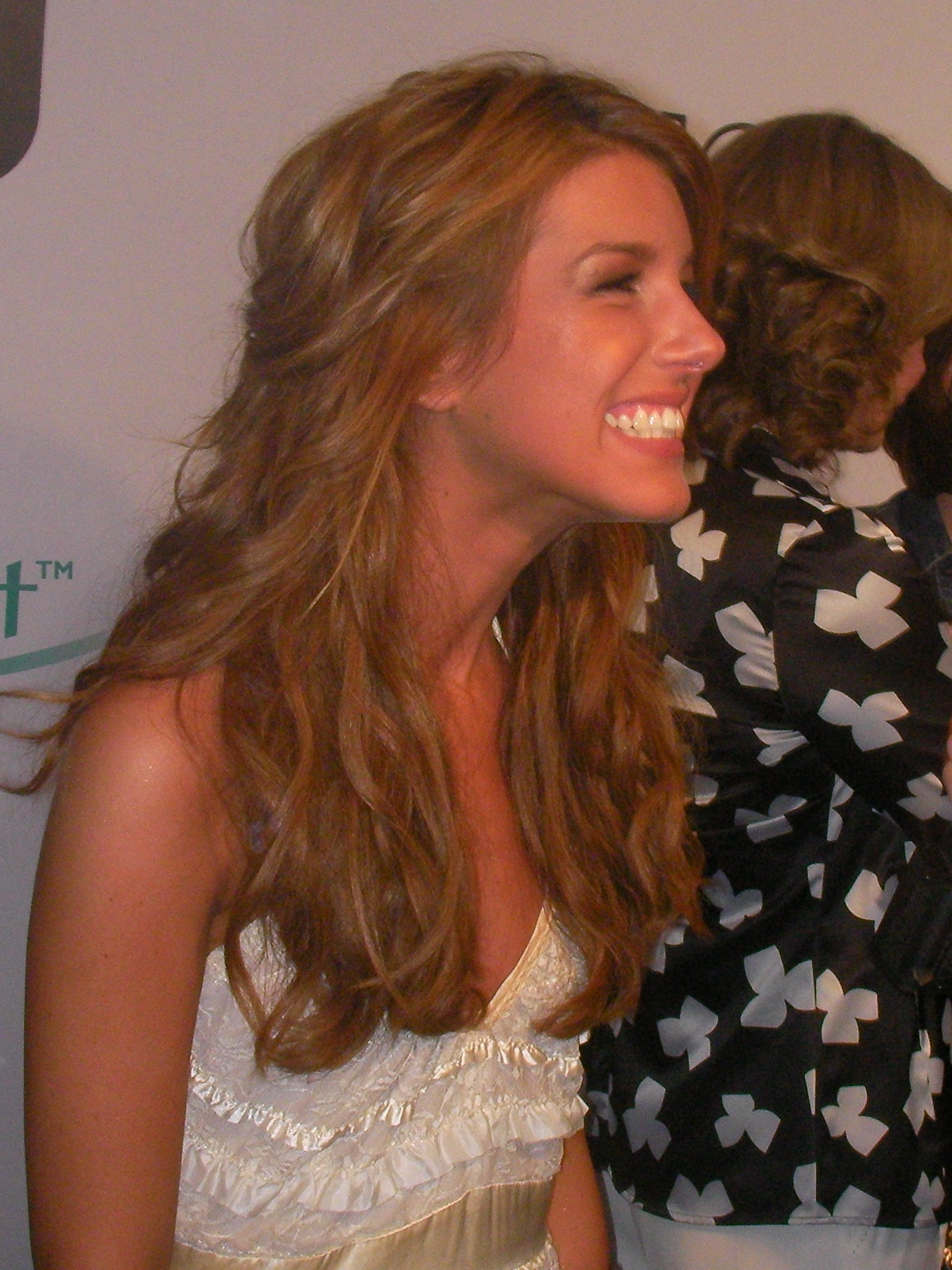 Shenae Grimes at the premiere party for CW's "90210," Malibu, California - Aug. 23, 2008